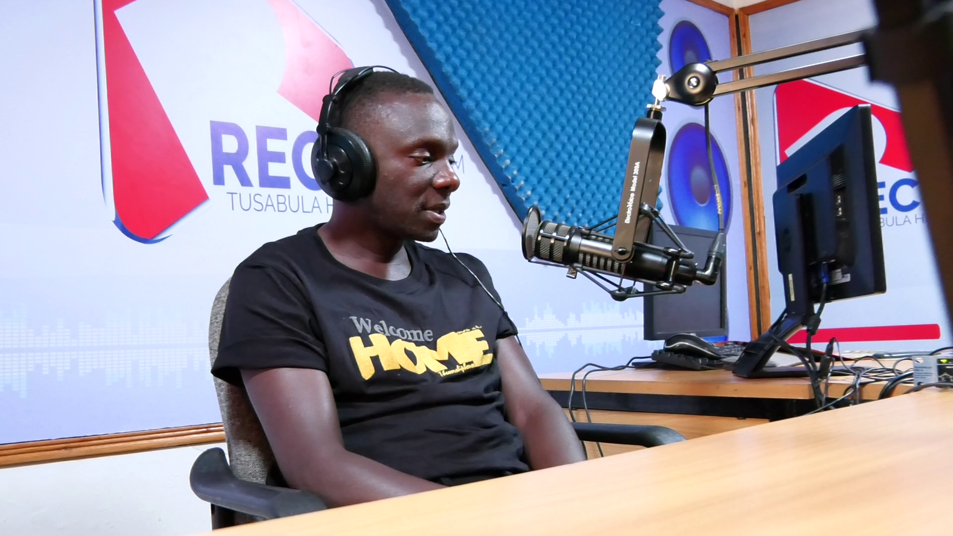 Pastor Wilson Bugembe At 97.7 Record FM